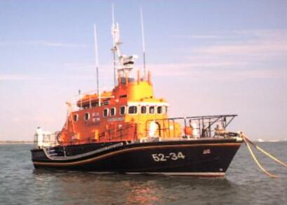 RNLI relief Arun class lifeboat, Margaret Russell Fraser at Calshot, Hampshire. Sold to Iceland in 2005 and renamed Ingibjorg.